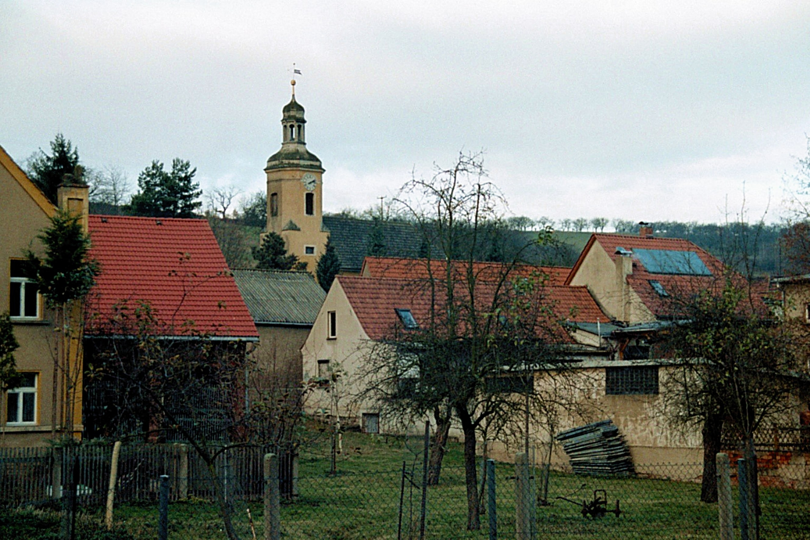 Rauda (Thuringia), view to the village church